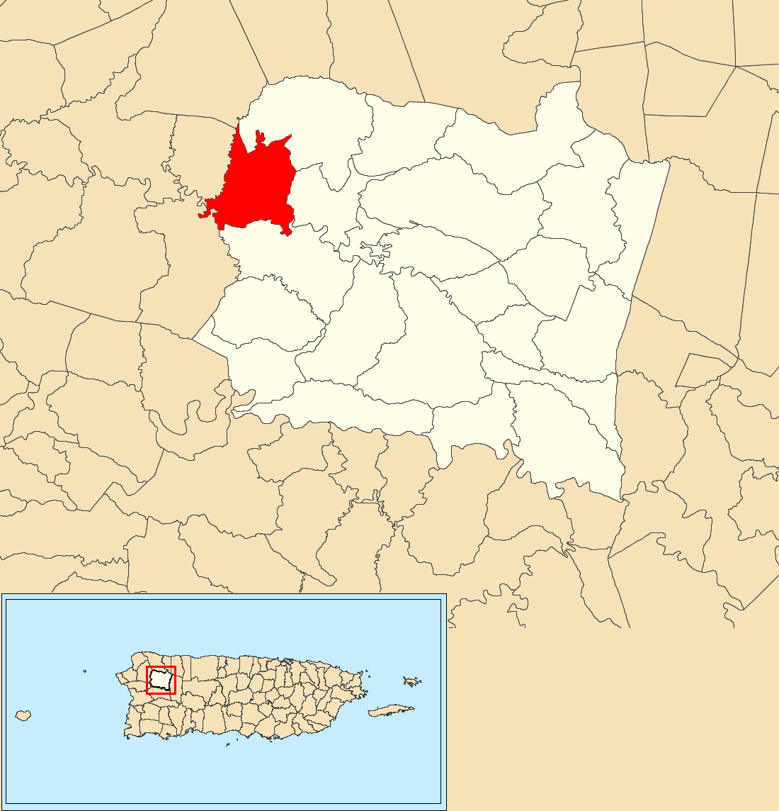 Hato Arriba, San Sebastián, Puerto Rico locator map